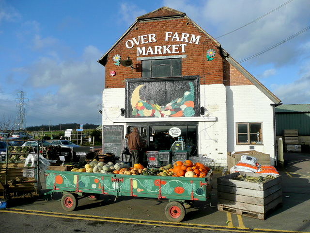 Over Farm Market A popular farm shop and PYO on the western outskirts of Gloucester.